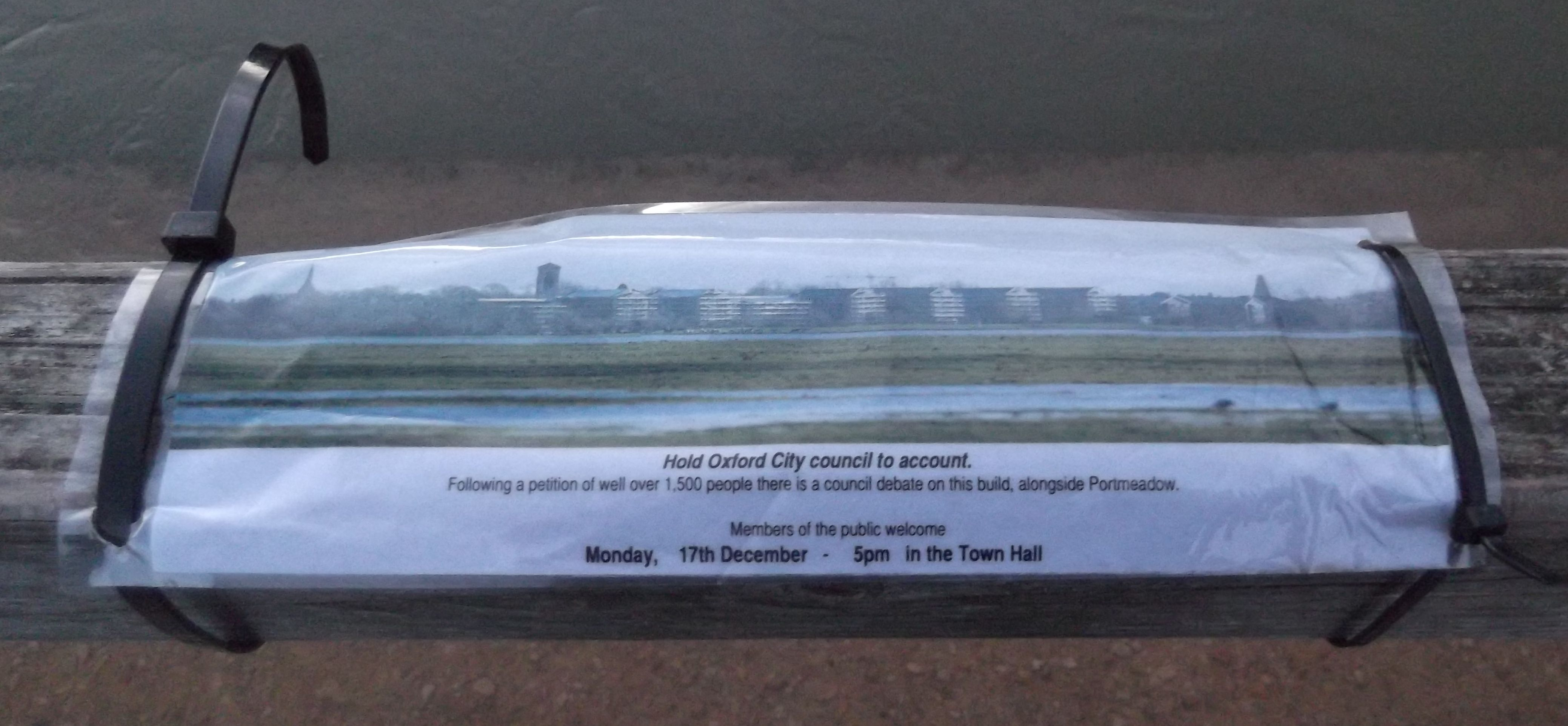 Notice about new University of Oxford graduate housing on the bridge at the south end of Port Meadow in Oxford, England.